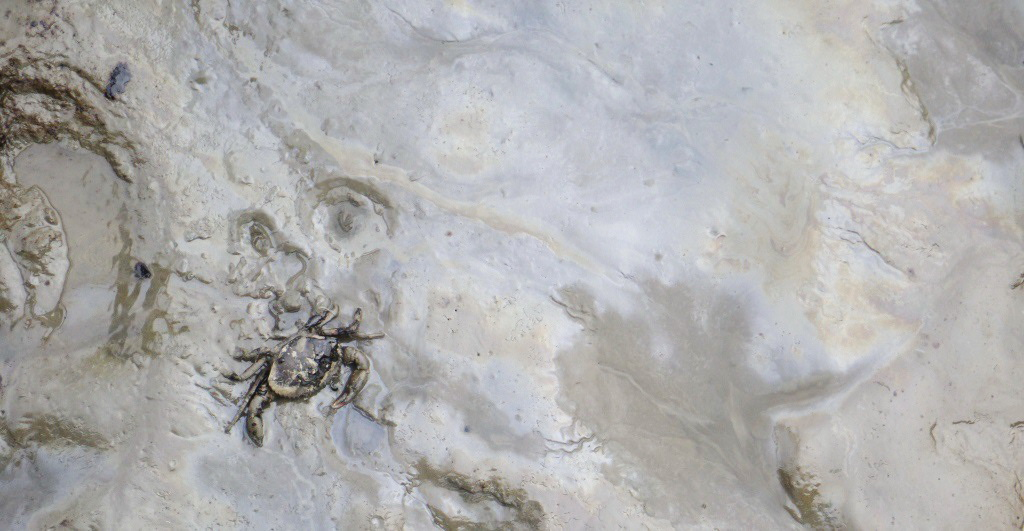 Dead crab after oil spill in Sundarban